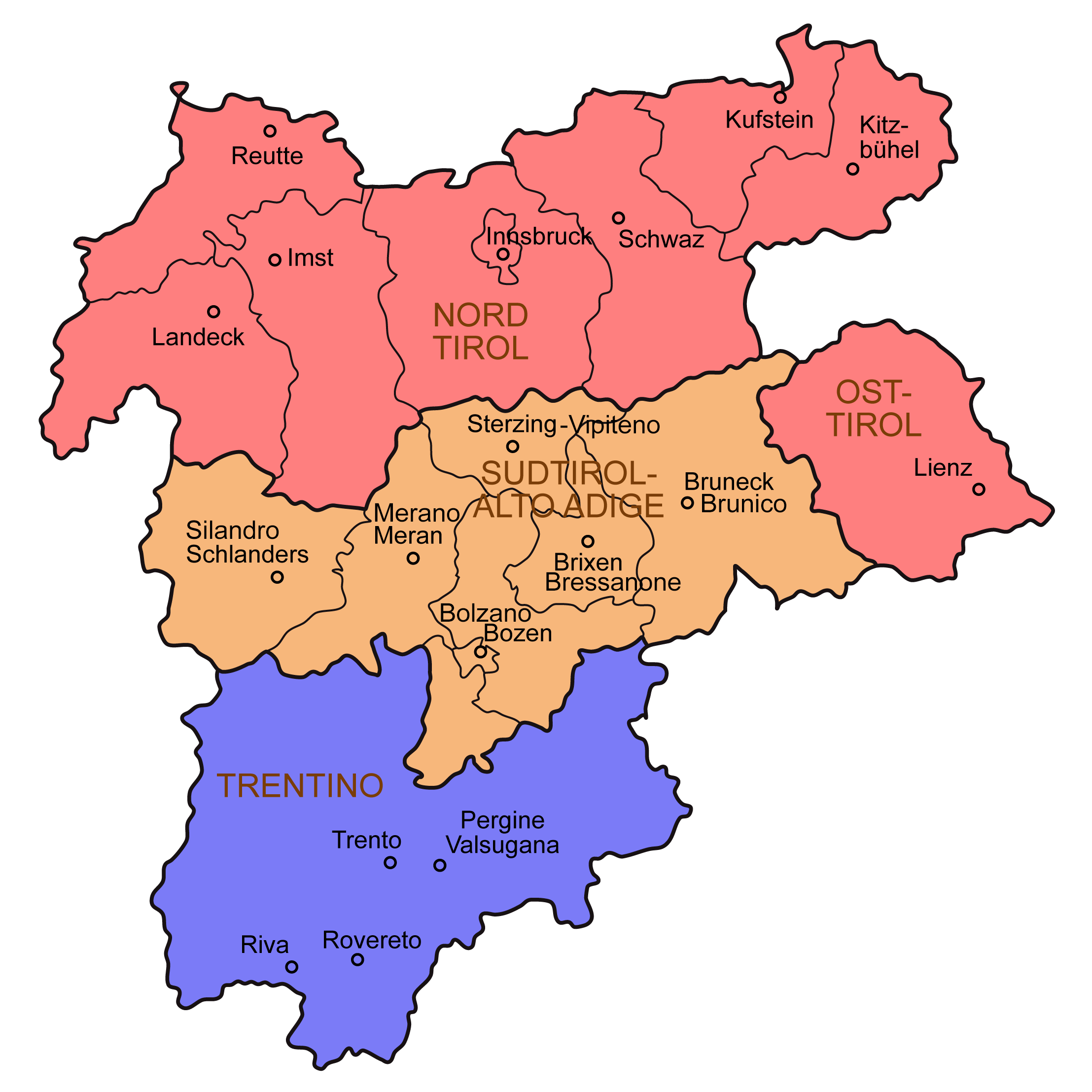 Map of Tirol-Südtirol-Trentino